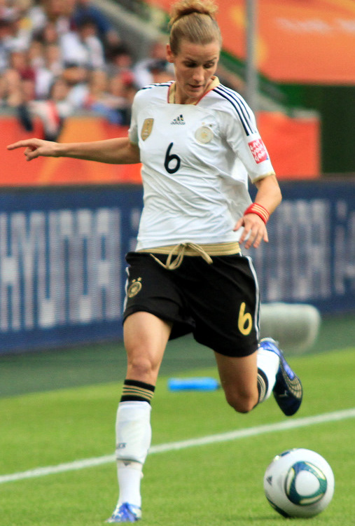 Simone Laudehr playing for Germany against France in the 2011 FIFA Women's World Cup